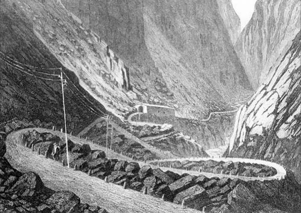 Telegraph line through the Gotthard Contemporary illustration about 1850/1870